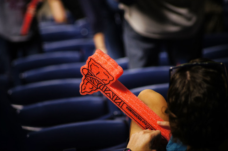 A man at an Atlanta Braves game holds a Braves tomahawk.